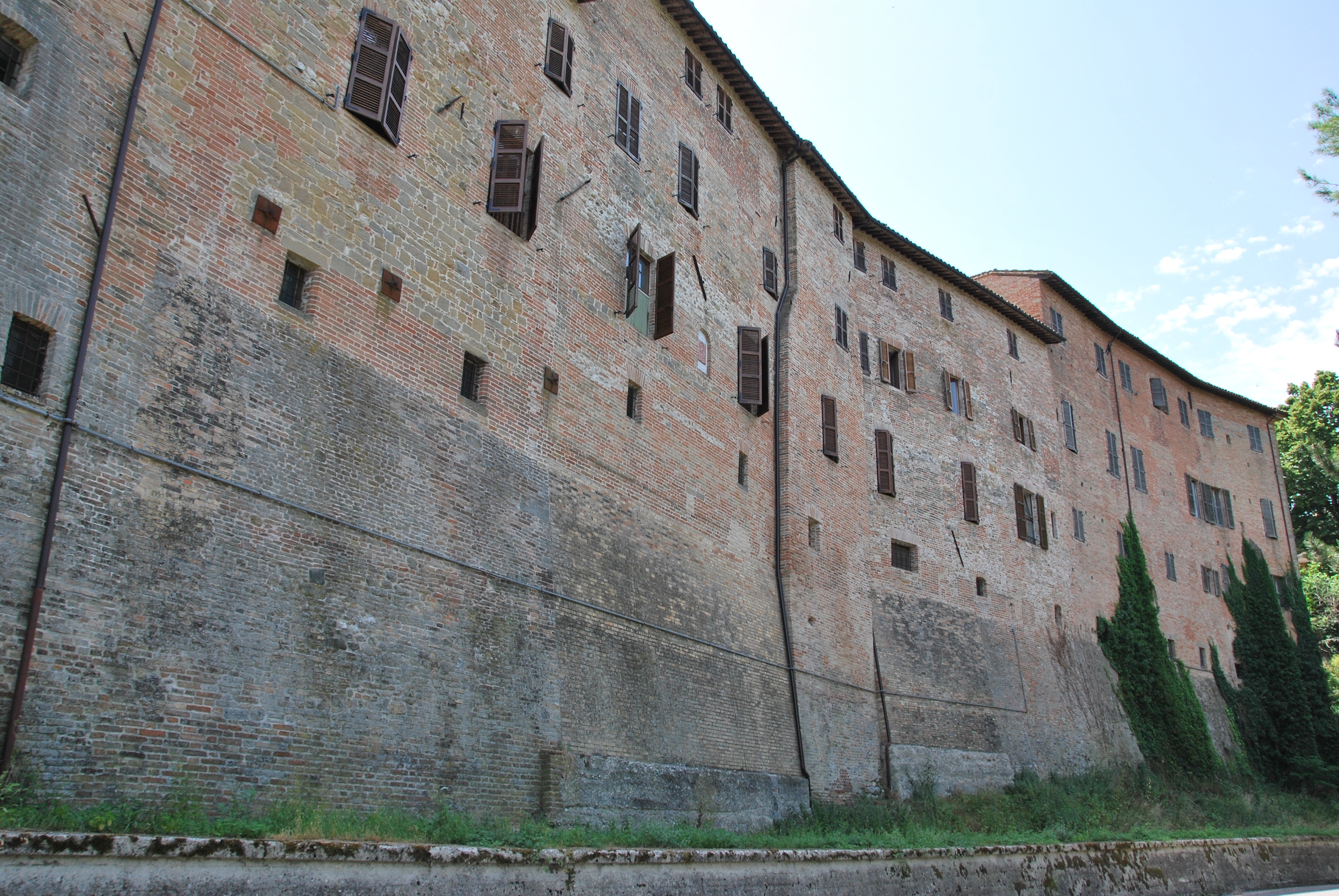 Walls of Amandola